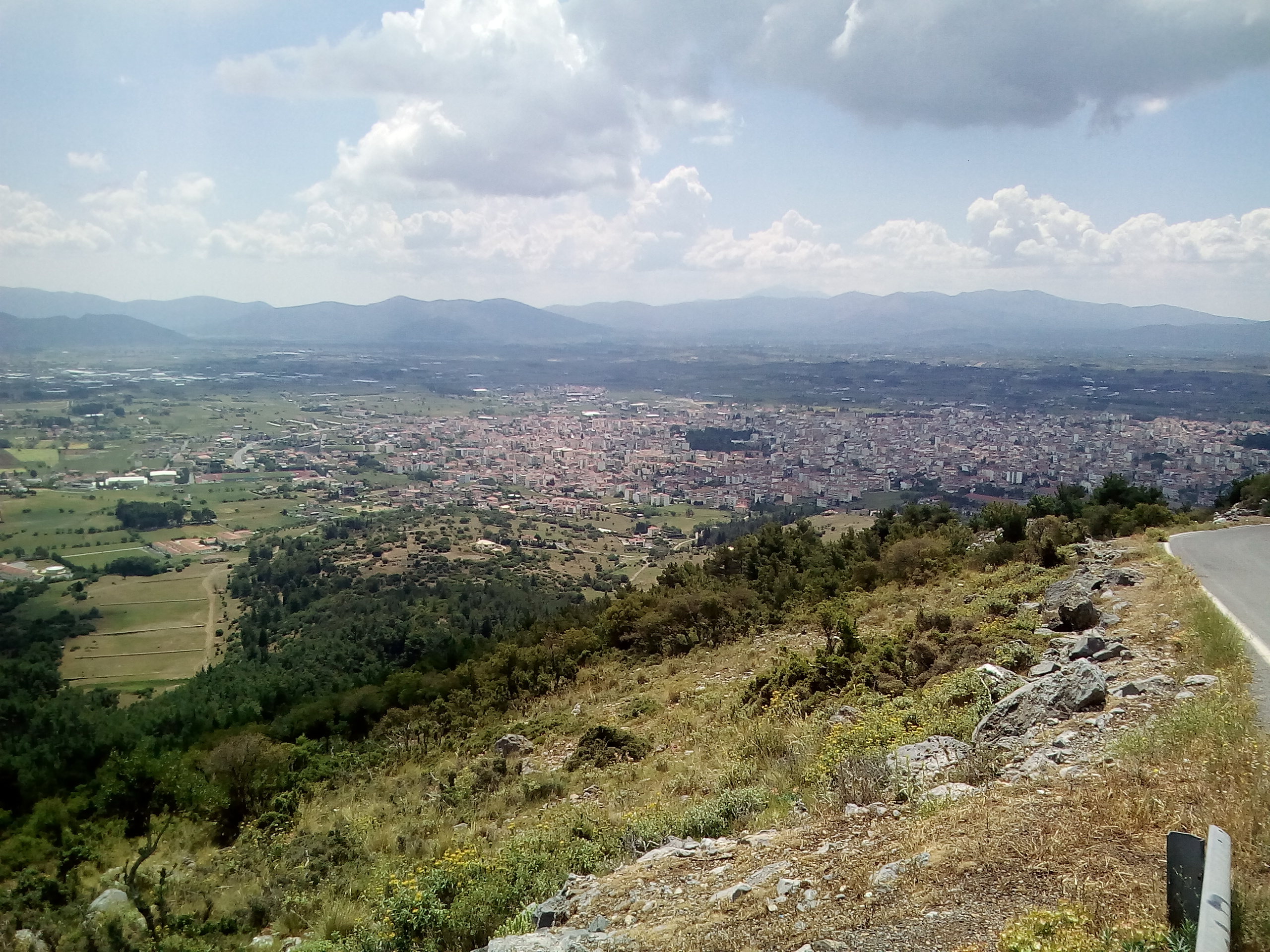 Tripoli from above